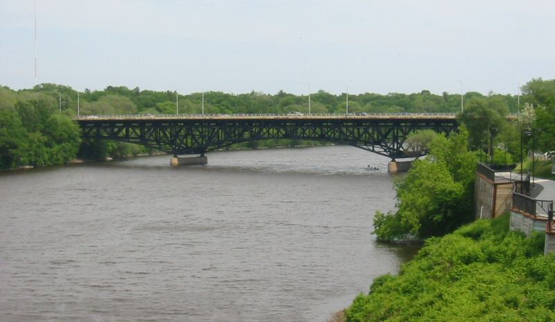 The DeSoto Bridge in St. Cloud, taken from the Veterans Bridge.